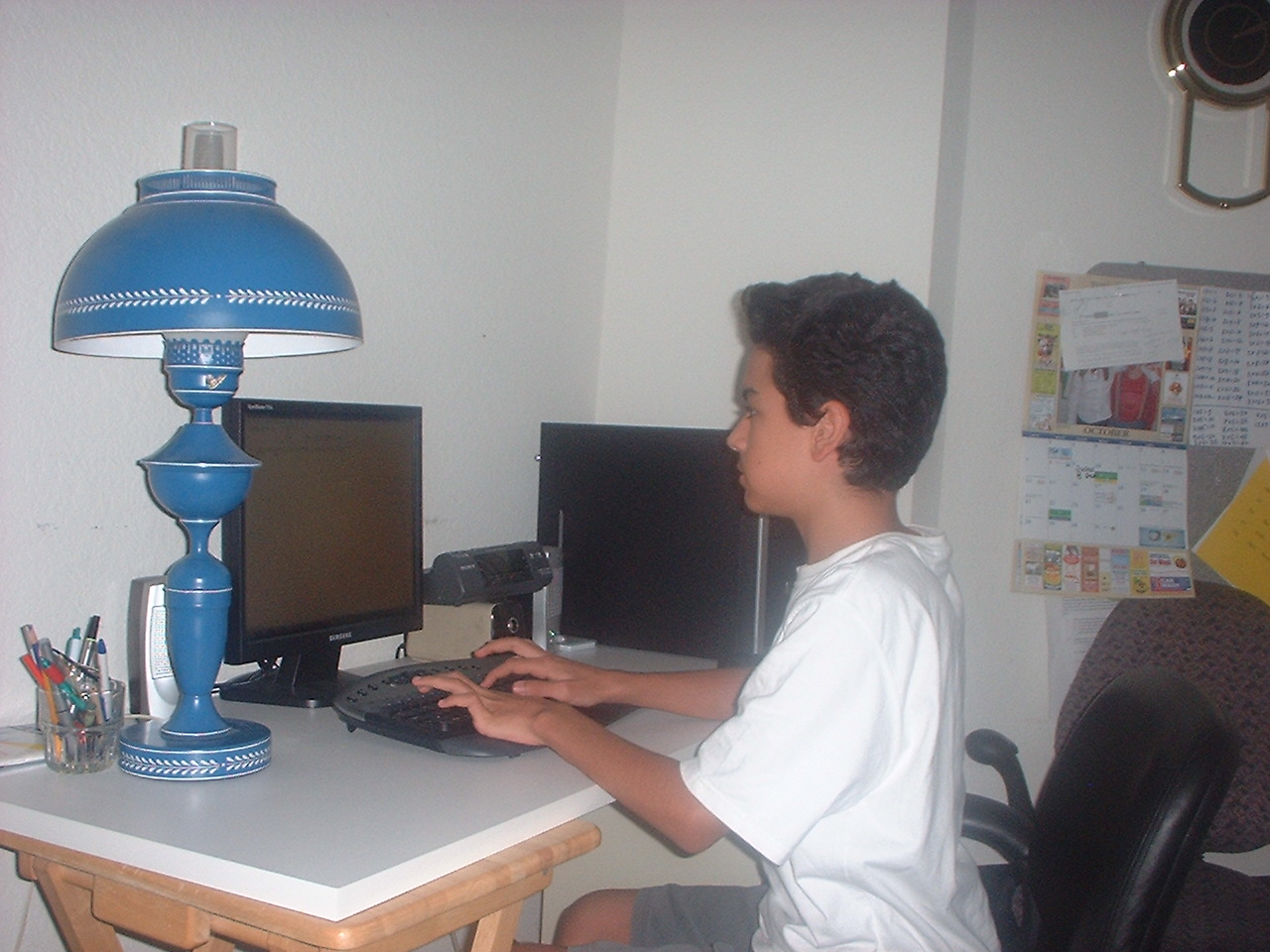 Picture of Planoneck of the English Wikinews